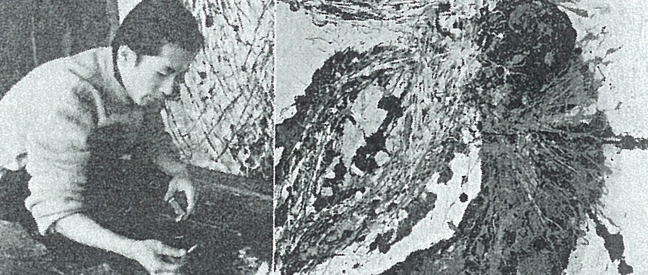 Toshimitsu Imai